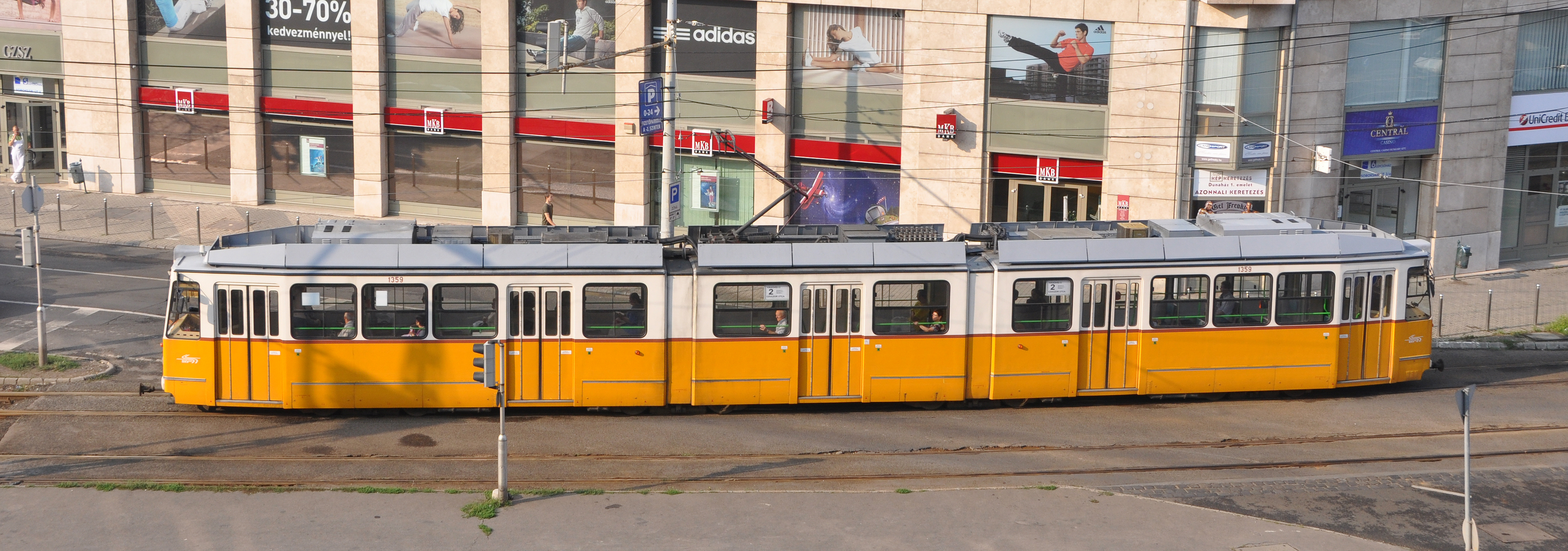 Budapest (Hungary): tram KCSV7 #1359 (built by Ganz and rebuilt by Ganz-Ansaldo) on line 2 in Soroksári Avenue